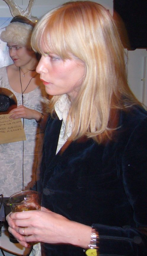 Sienna Guillory at the VX Auteur Theory awards at the 4th Halloween Short Film Festival